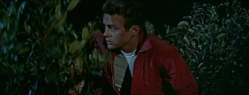 Cropped screenshot of James Dean in the trailer for the film Rebel Without a Cause